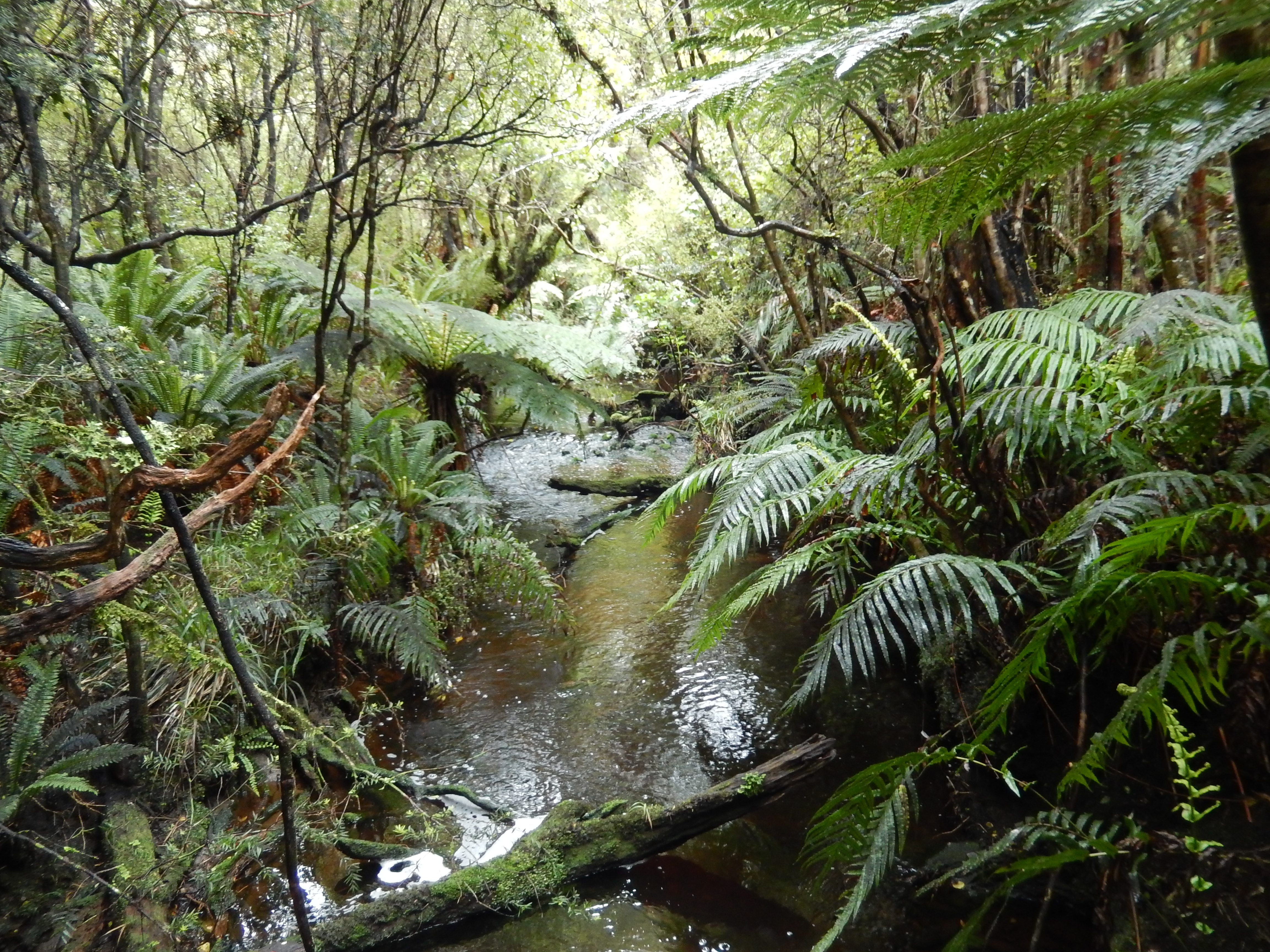 View from Fern Gully Track on Stewart Island, New Zealand.